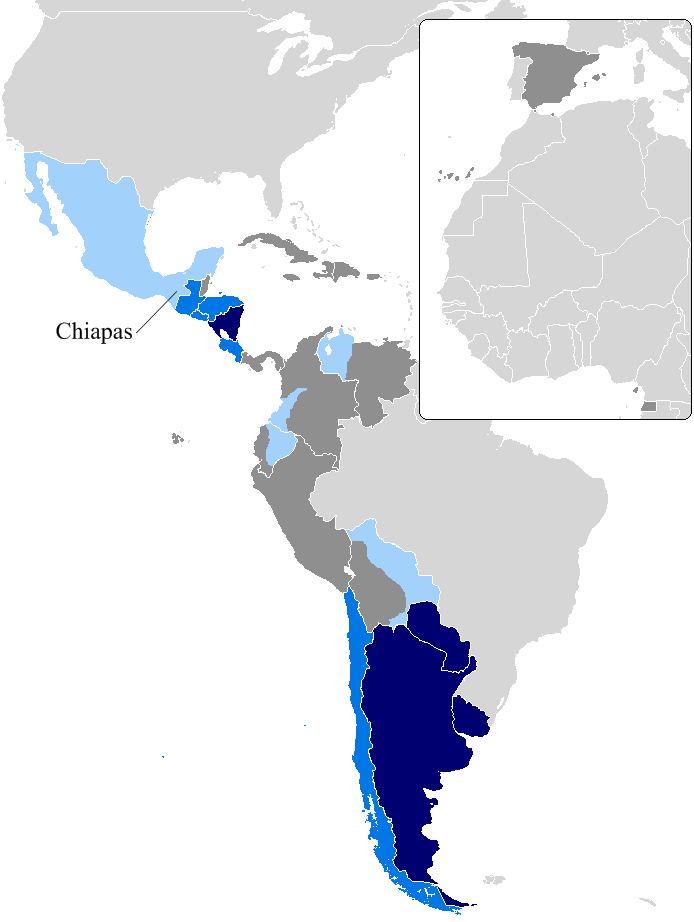 Map of countries with voseo phenomena: primary spoken and written form predominant, yet not as intensive use is regional or localized Spanish-speaking country, voseo non-existent